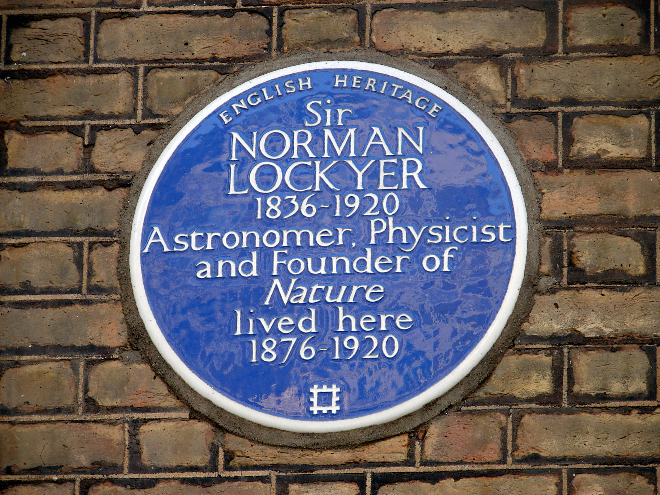 English Heritage plaque: Sir Norman Lockyer 1836-1920 Astronomer, Physicist and Founder of Nature lived here 1876-1920. Located at 16 Penywern Road, Kensington, London SW5 9SU